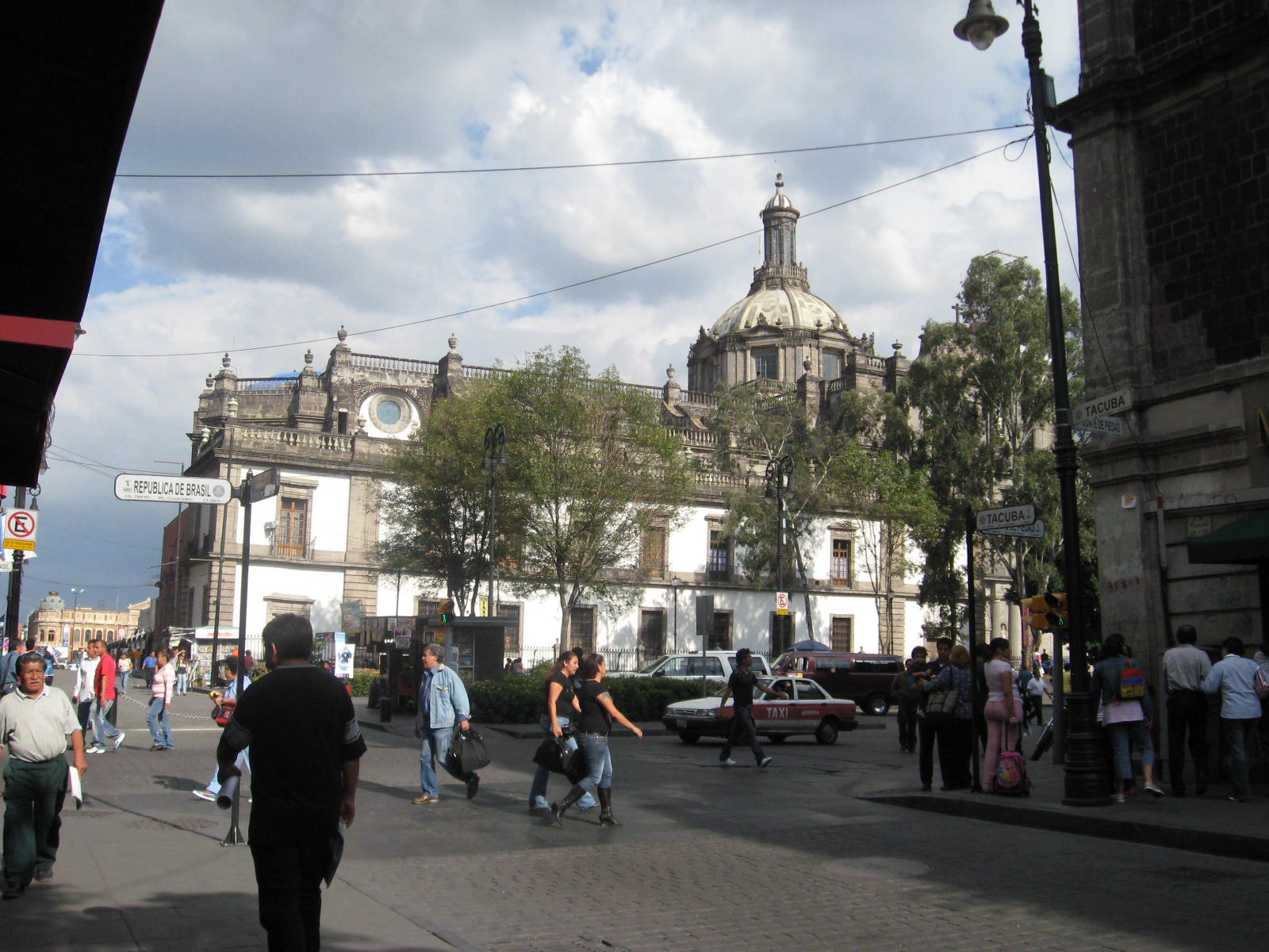 Back portion of the Mexico City Cathedral taken from Rep de Guatemala street